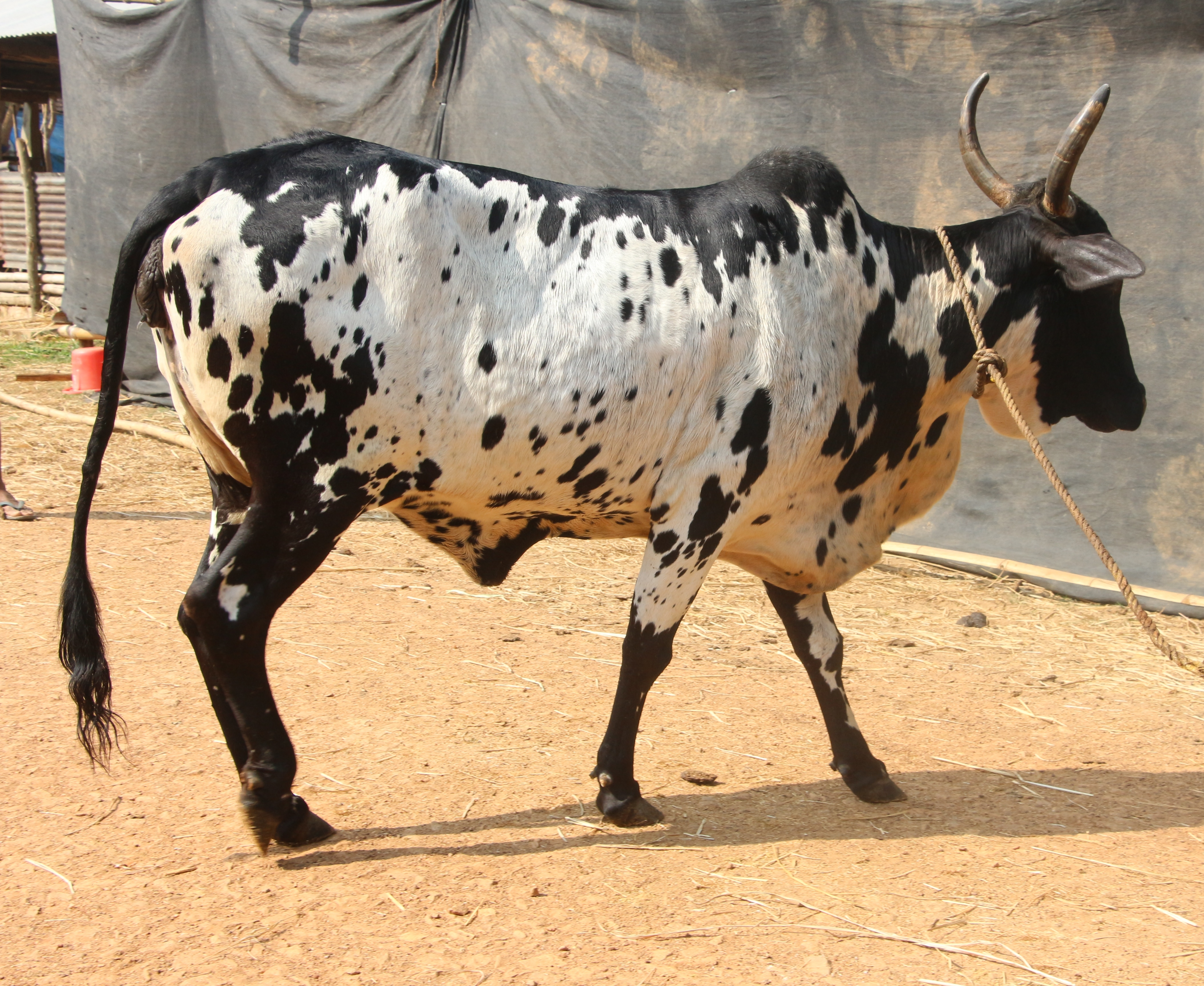 Indian cow breed Dangi ಕನ್ನಡ: ಭಾರತೀಯ ಗೋತಳಿ ಡಾಂಗಿ